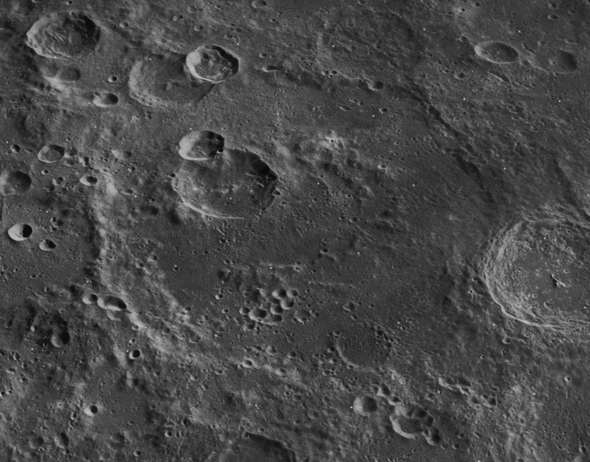 Milne, on the far side of the moon, facing southeast.